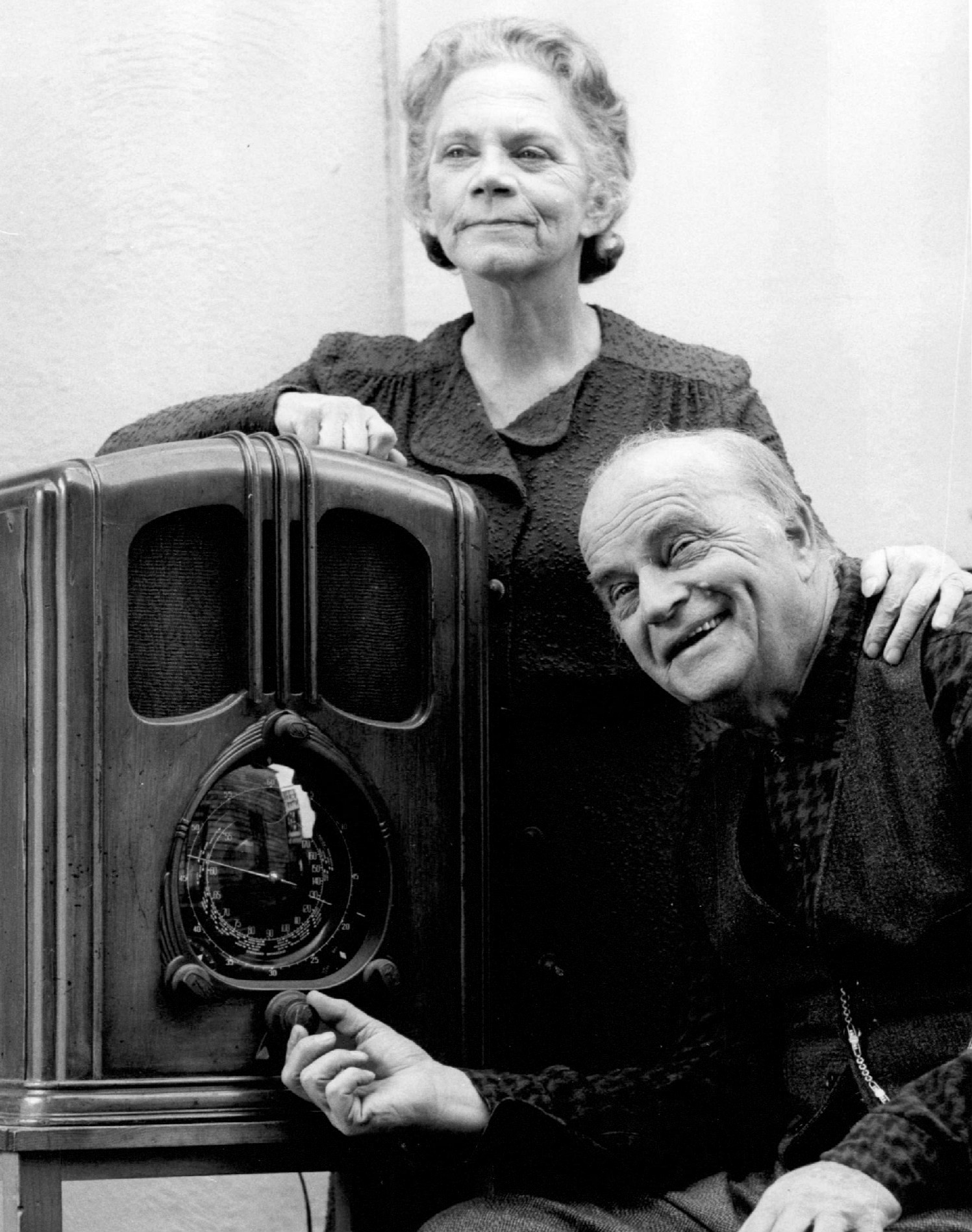 Photo of Edgar Bergen and Ellen Corby from the made for television movie, The Homecoming. This movie was aired before the beginning of the television series, The Waltons. Bergen played "Grandpa" Zeb Walton in the movie, but was replaced in the role by Will Geer for the regular series. Corby continued to play "Grandma" Esther Walton in the series.